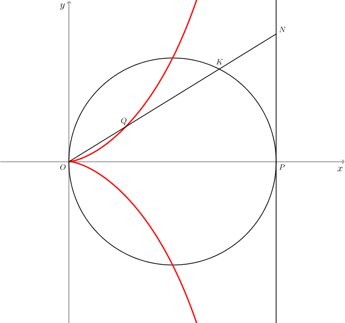 Construction of the cissoid of Diocles.